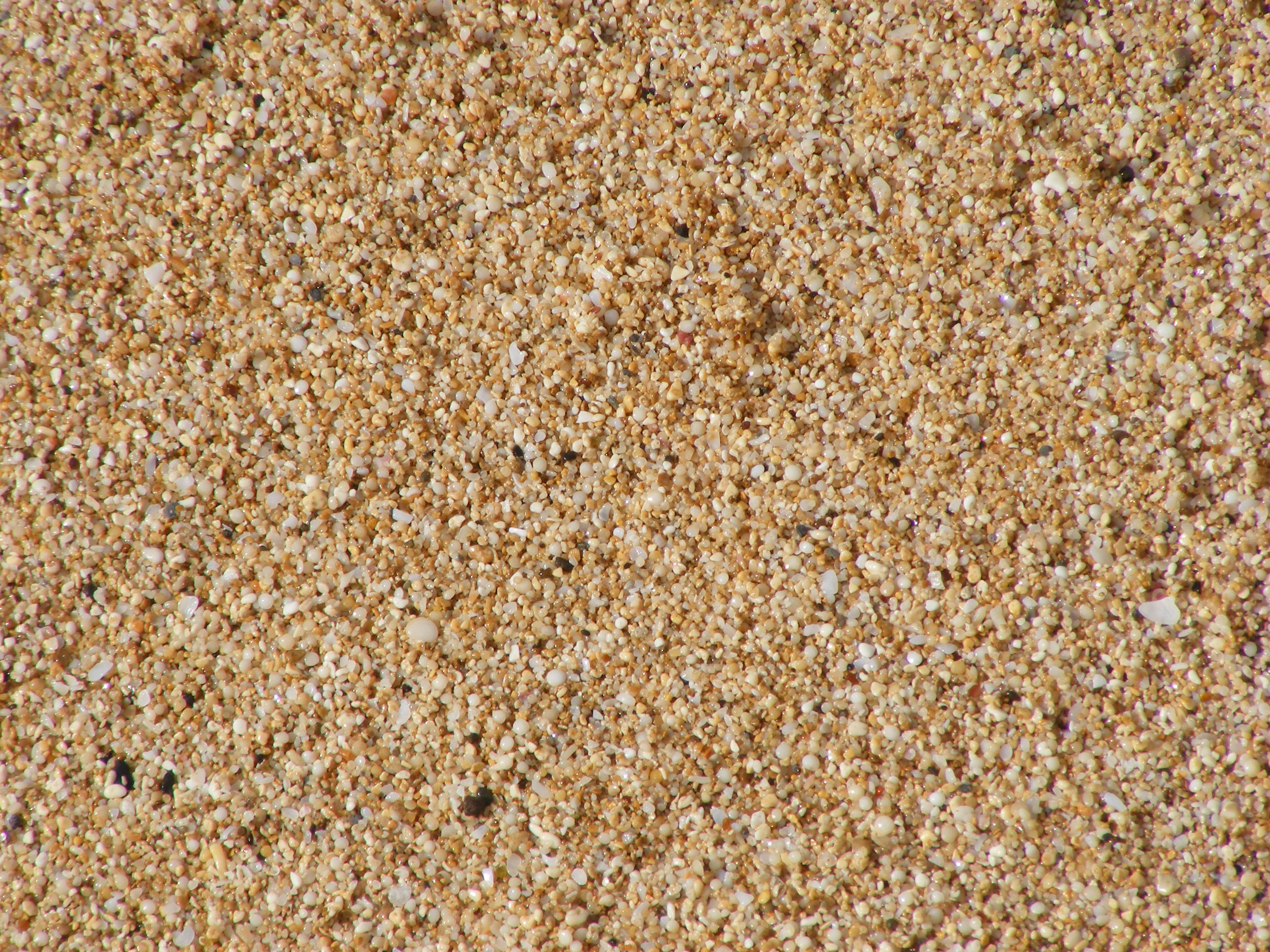 Waimea Bay Sand - Closeup